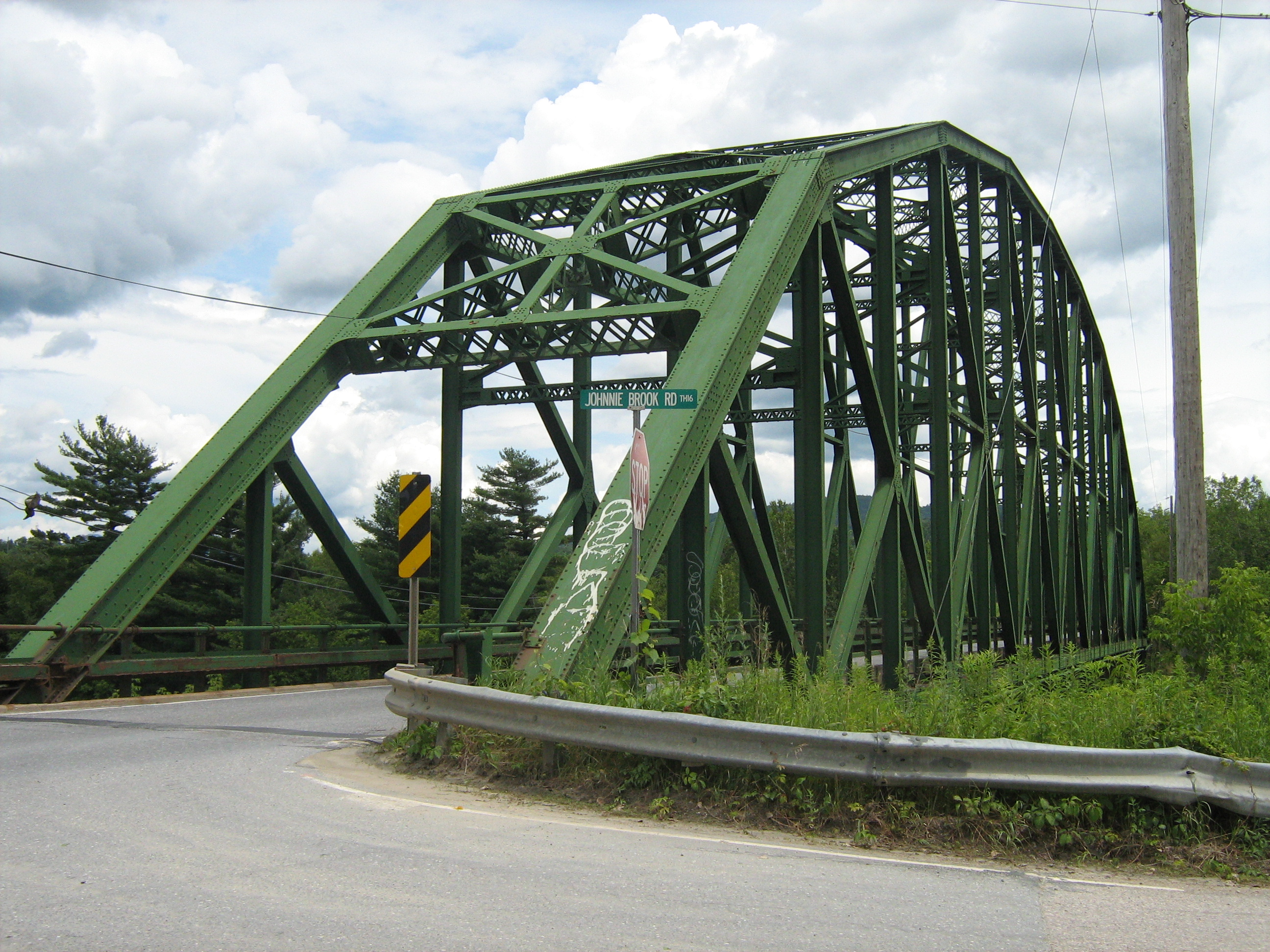 Through-truss road bridge carrying US Route 2 across the WInooski River in Richmond, Vermont. Listed on the National Register of Historic Places.